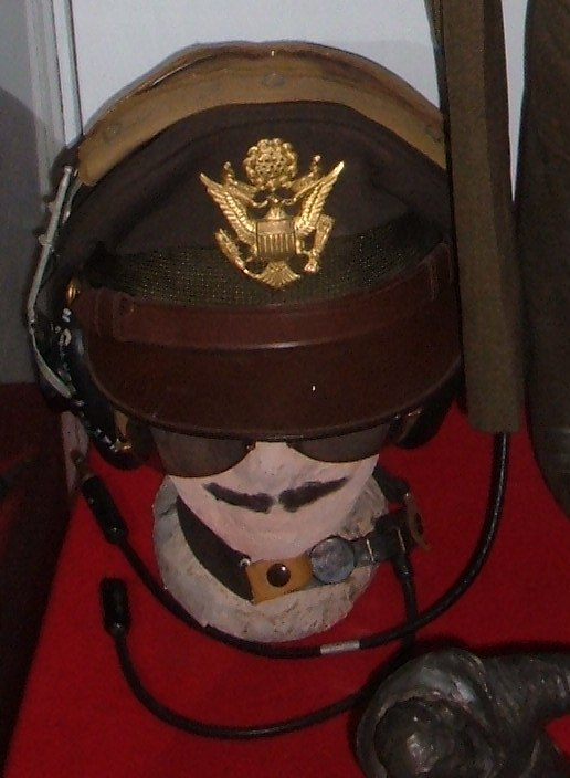 Detail from World War II US Army Air Force uniform: officer's cap, headphones and throat microphone. On display at the Pacific Coast Air Museum in Santa Rosa, California.